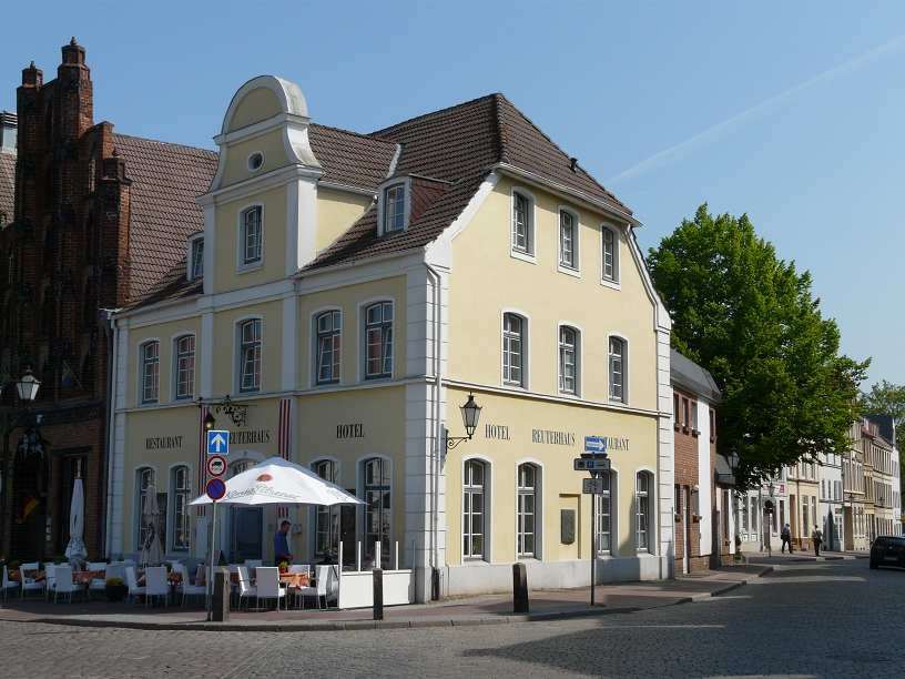 Reuterhaus in Wismar